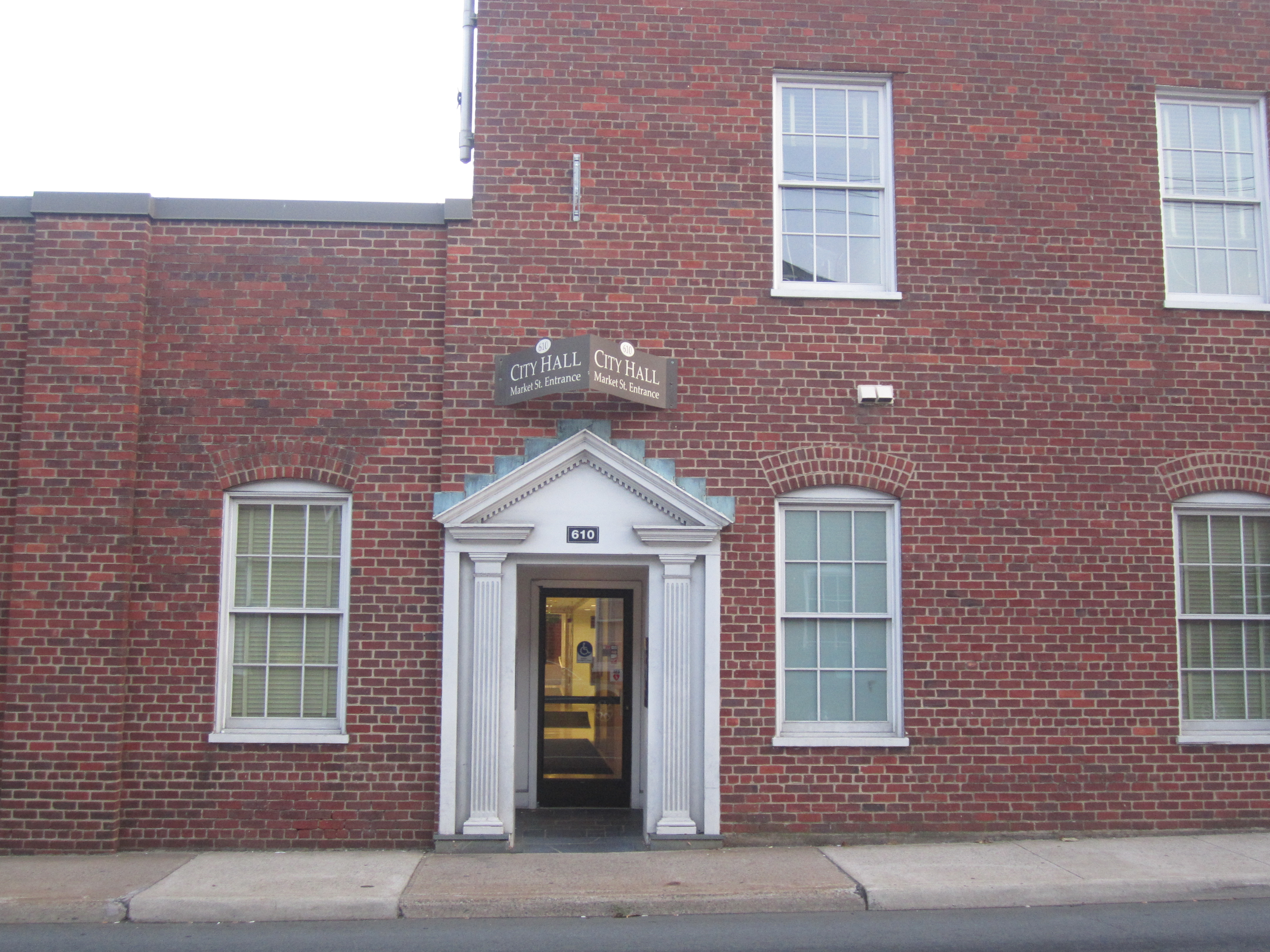 I took photo of Charlottesville, VA, City Hall (back entrance), with Canon camera.